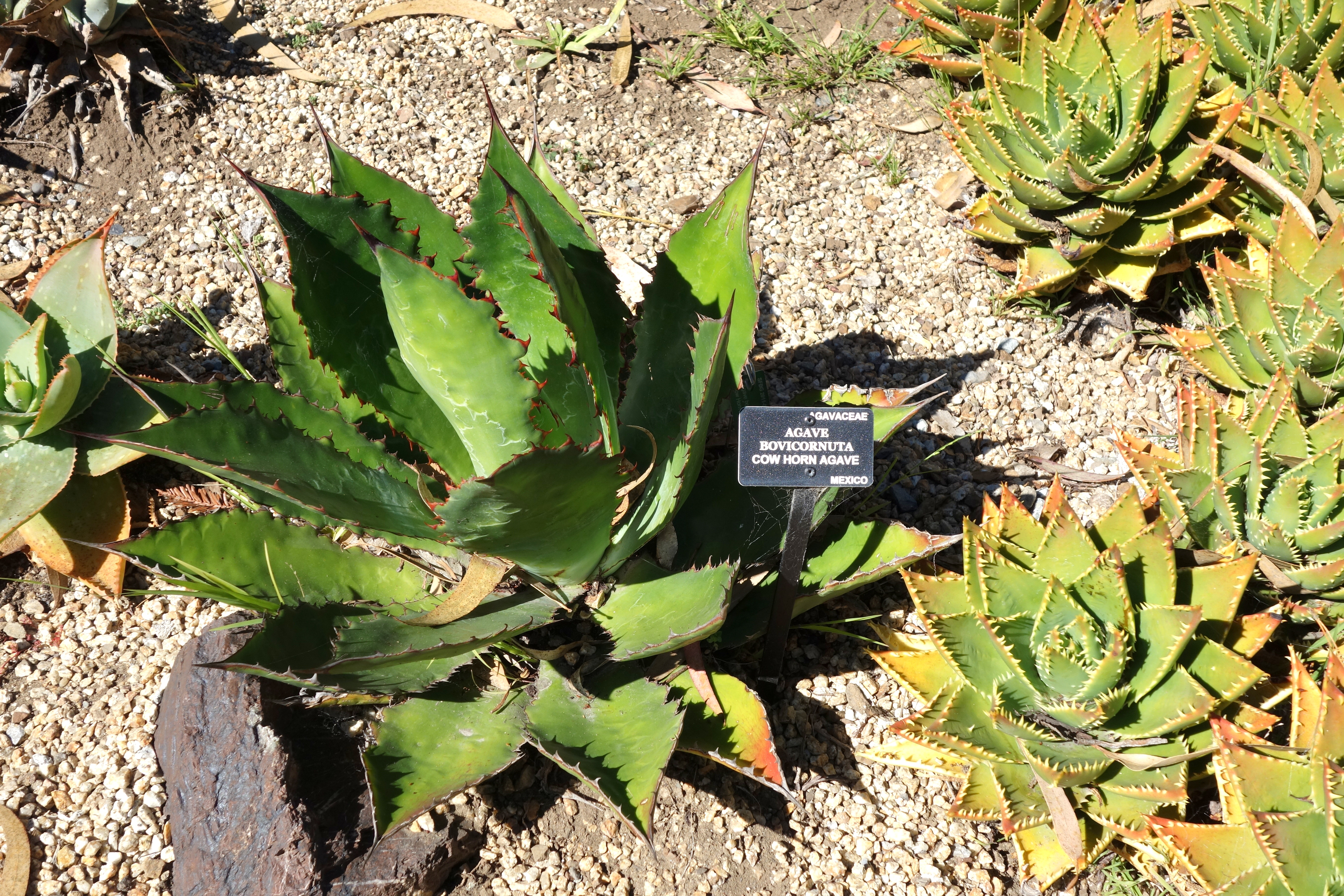 Botanical specimen in the San Francisco Botanical Garden, San Francisco, California, USA.